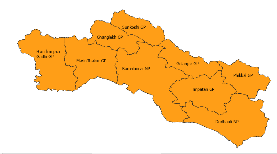 local governance of sindhuli